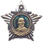 USSR Order of Ushakov 1st class.